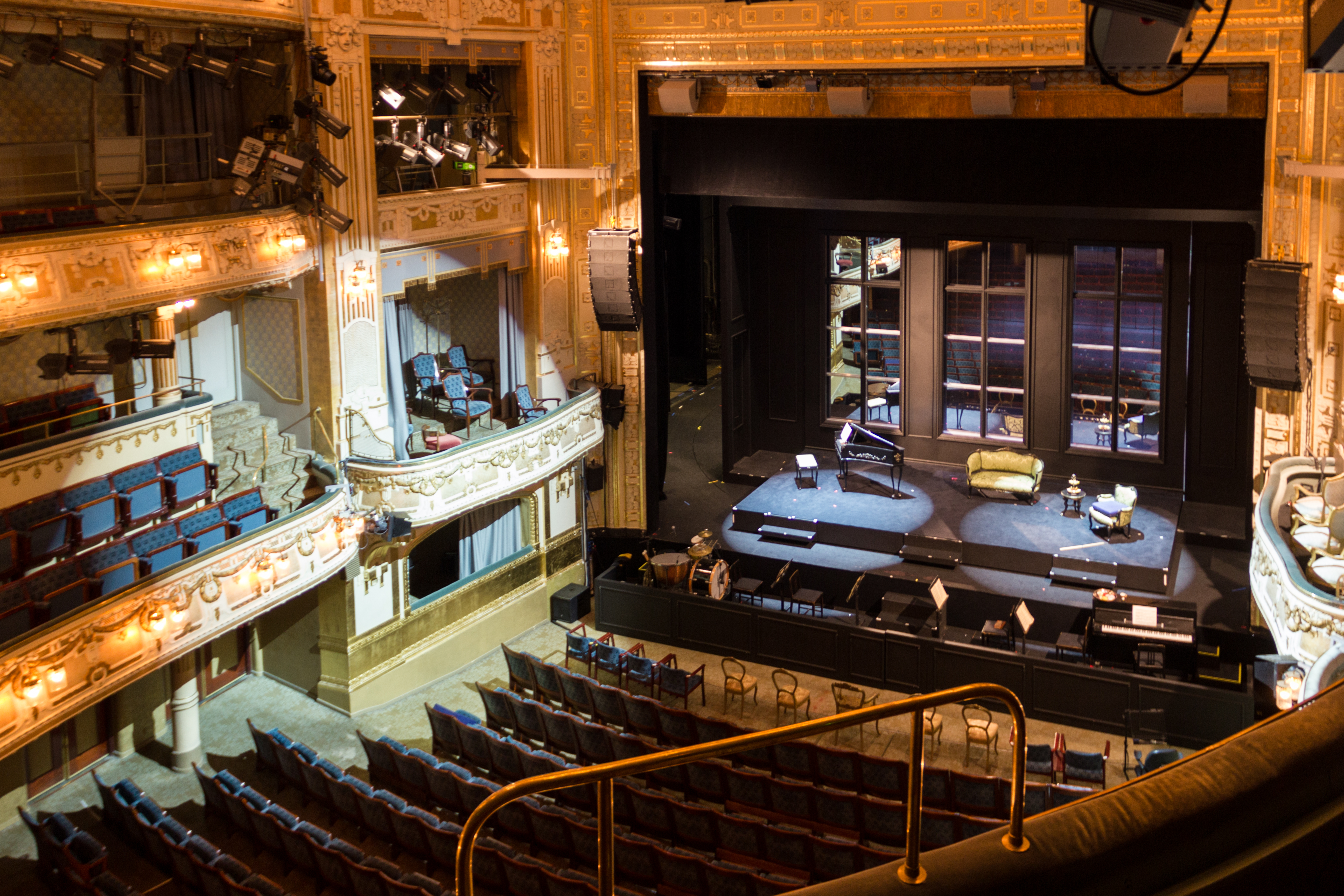 Inside the Royal Dramatic Theatre, Stockholm, Sweden.